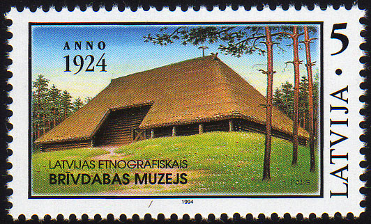 Postage stamp issued by Latvia 1994 with view of Riga, Latvia.